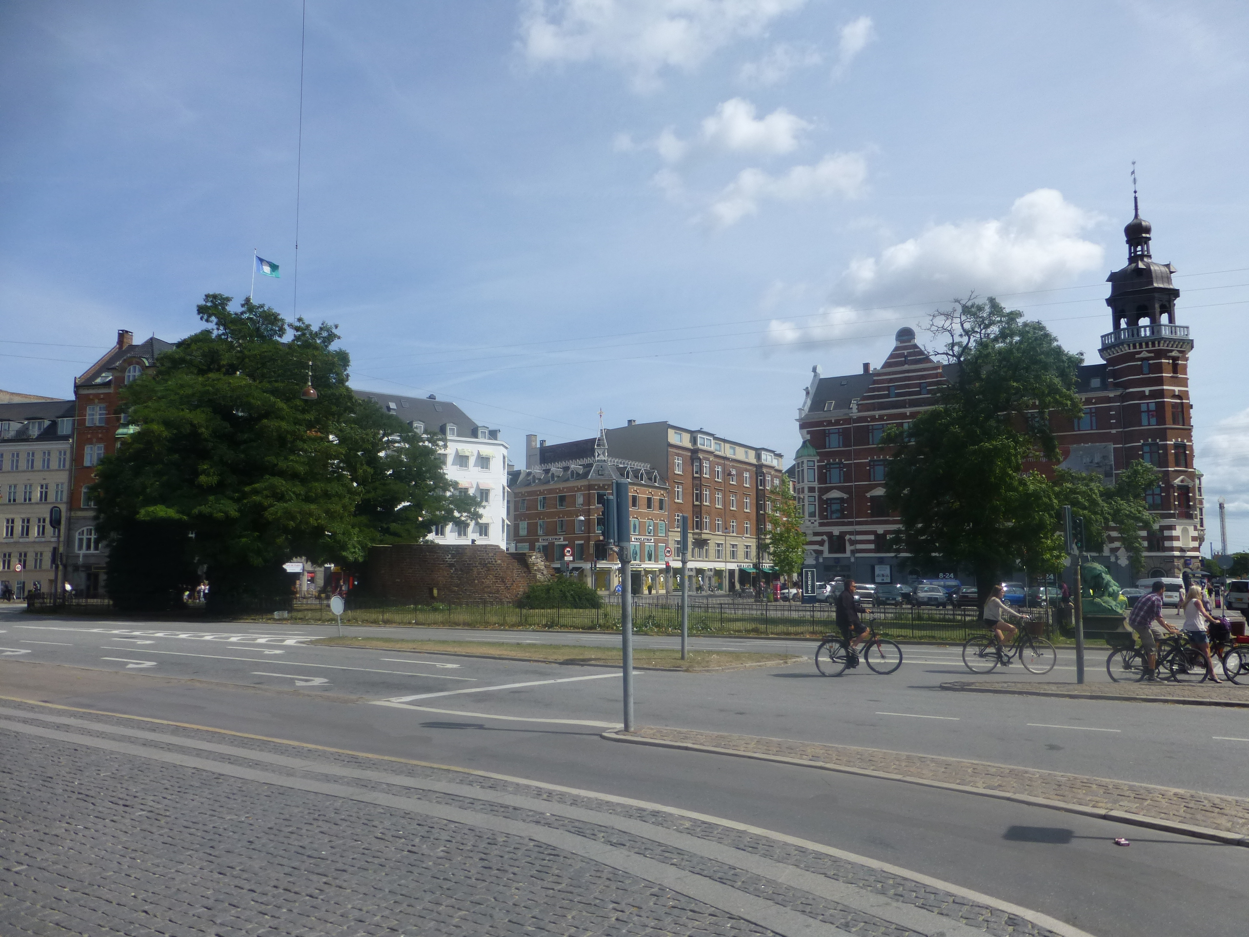 The Square Jarmers Plads in Indre By in Copenhagen.